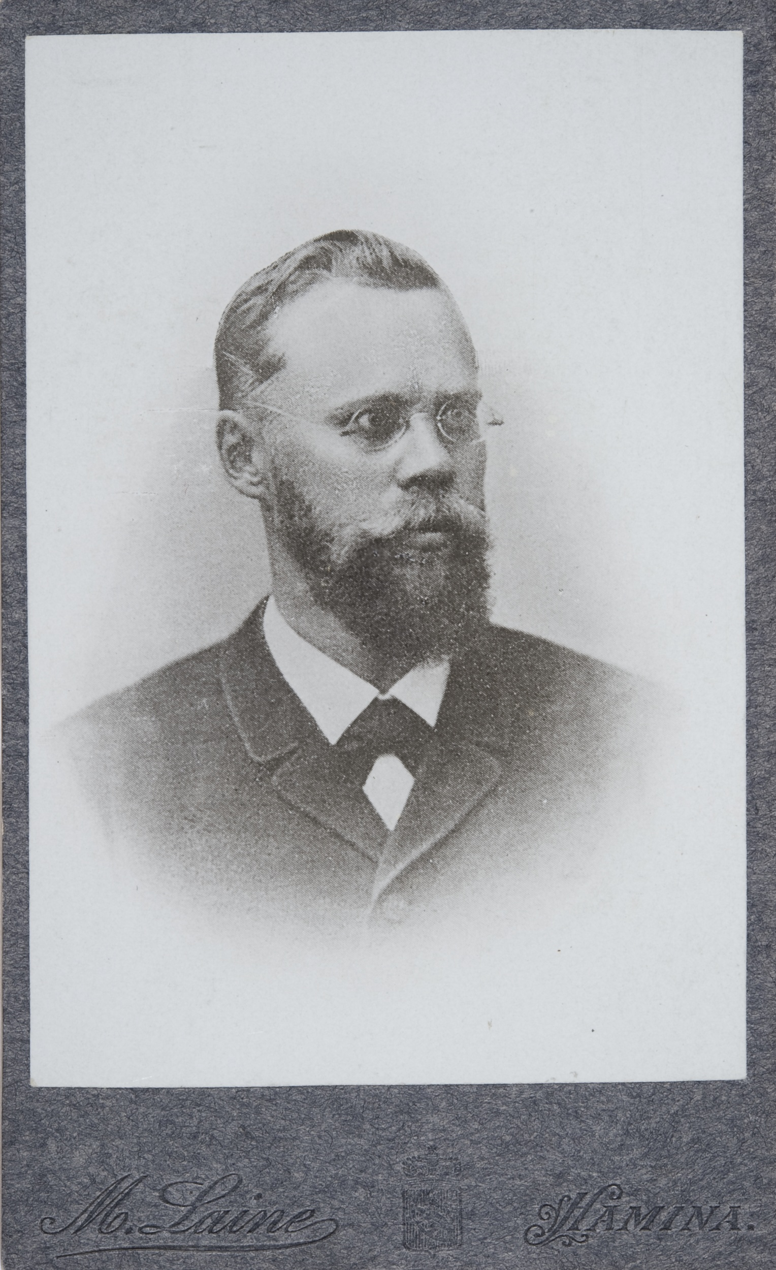 Photograph of the Finnish poet Kaarlo Kramsu (1855–1895).